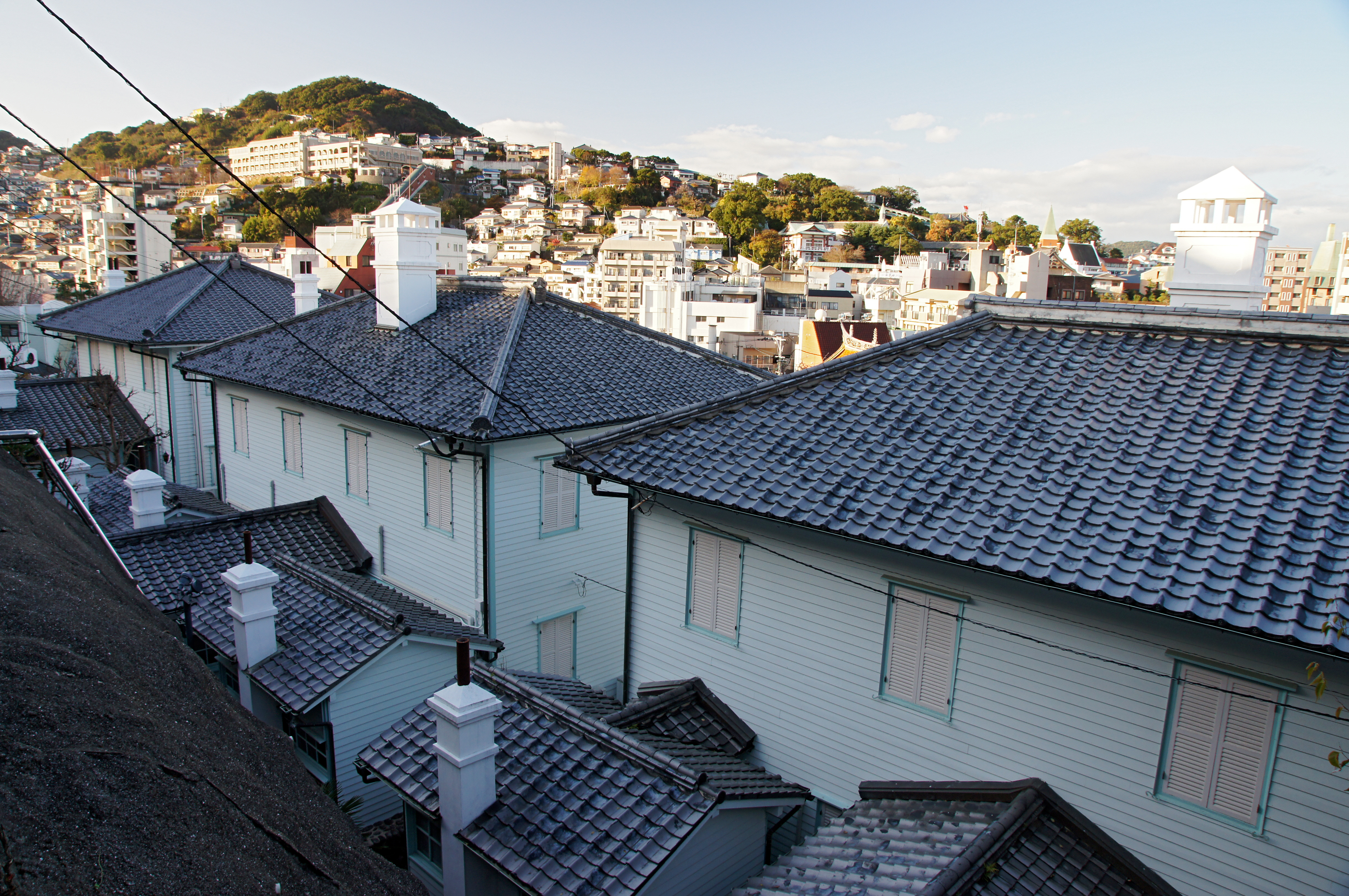 Western Style Houses at Higashiyamate in Nagasaki, Nagasaki prefecture, Japan